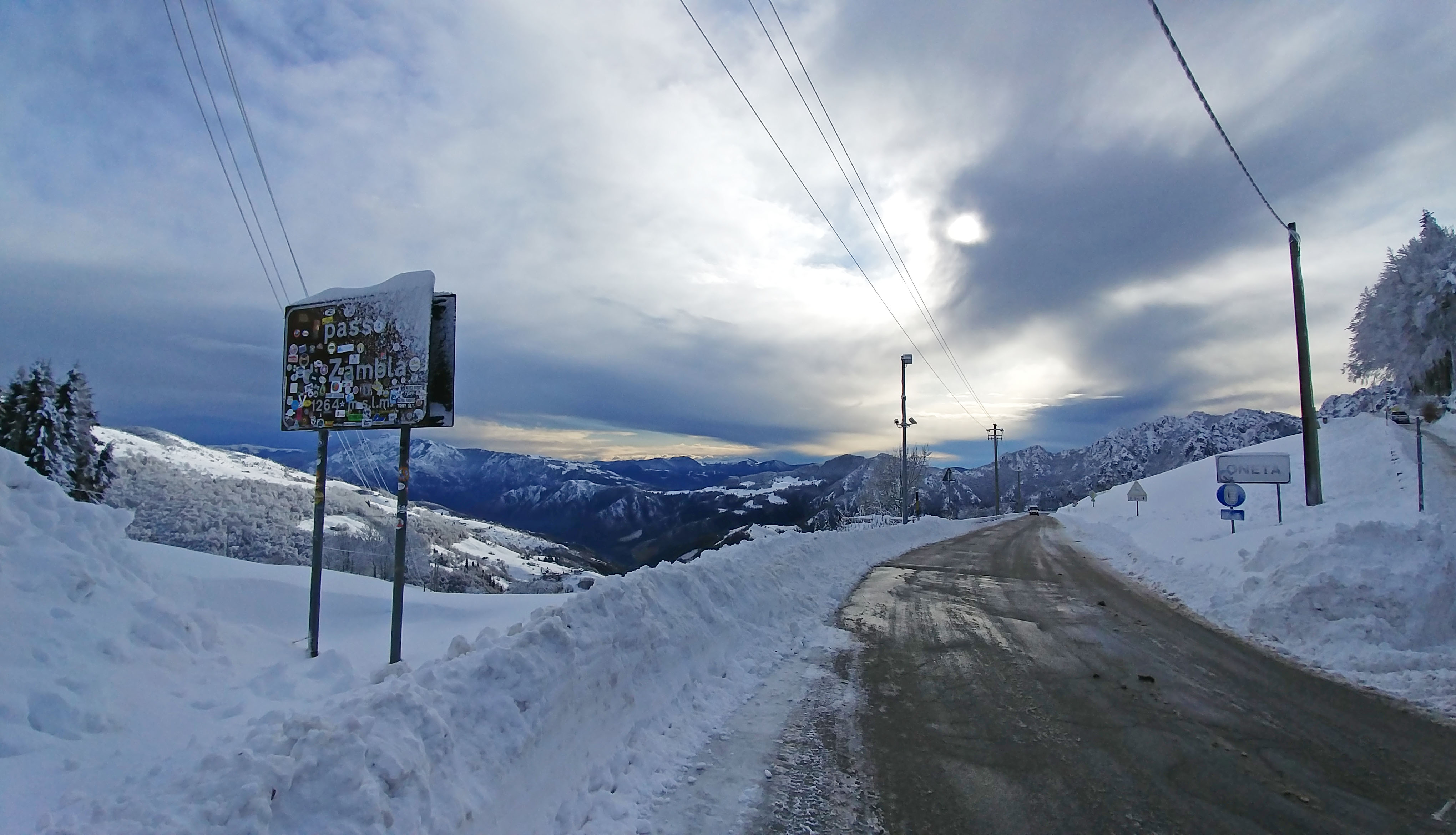 Zambla pass in winter